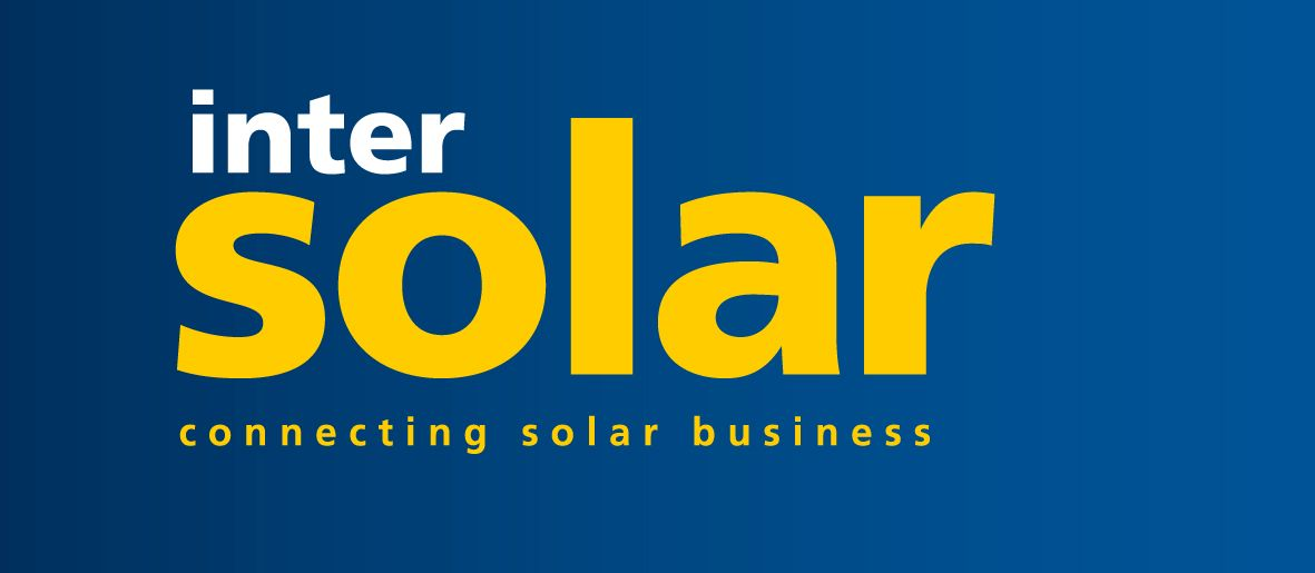 Intersolar Logo